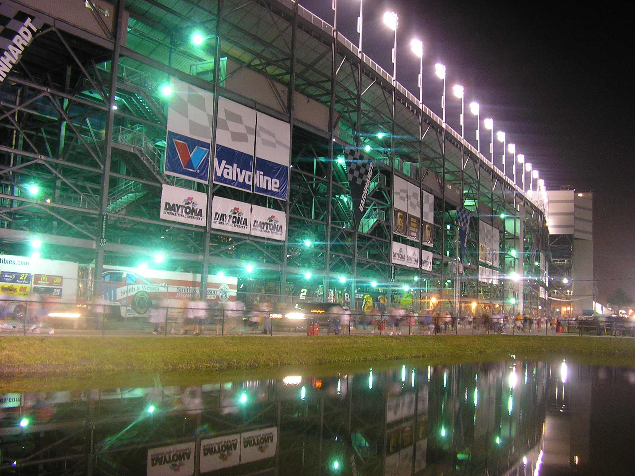 Exterior of the Main Entrance of the Daytona International Speedway at night, taken on 30 June, 2005.